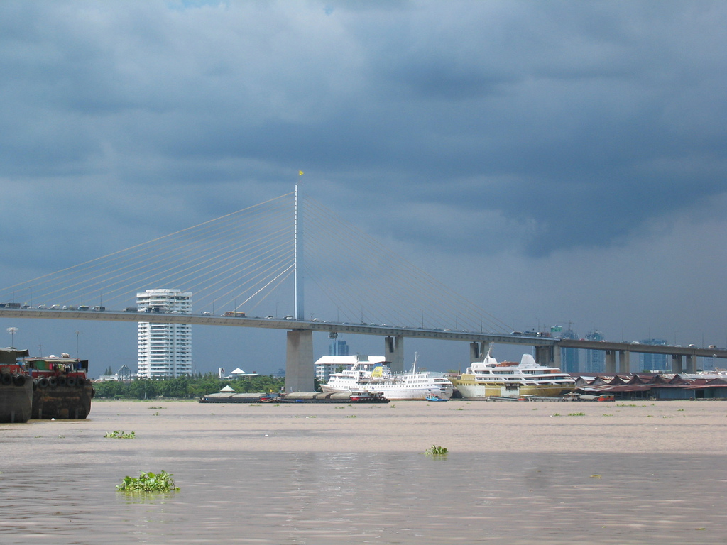 Rama IX Bridge in Bangkok